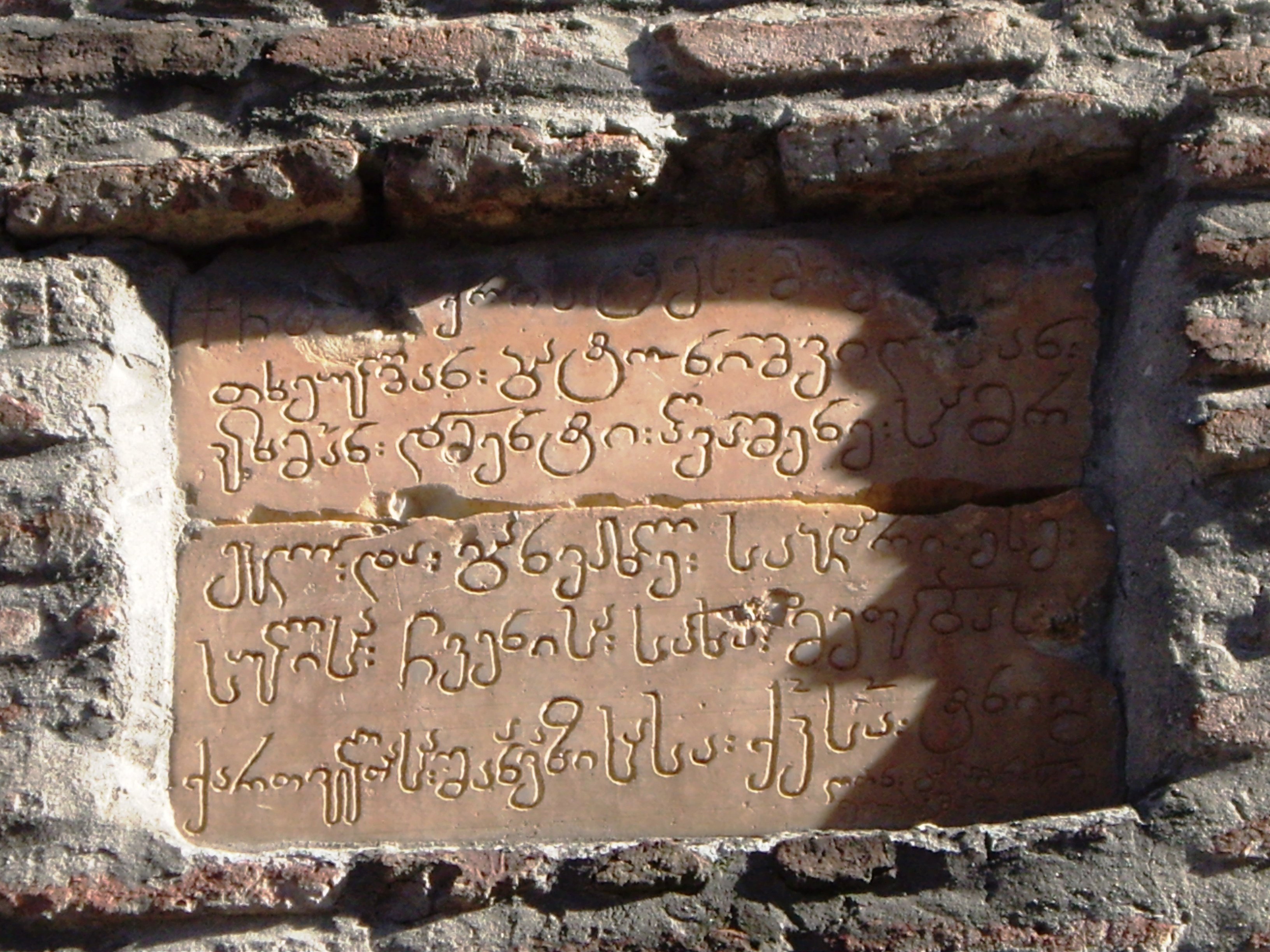 Anchiskhati basilica